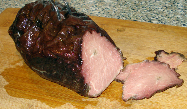 Ready cooked tjälknul.